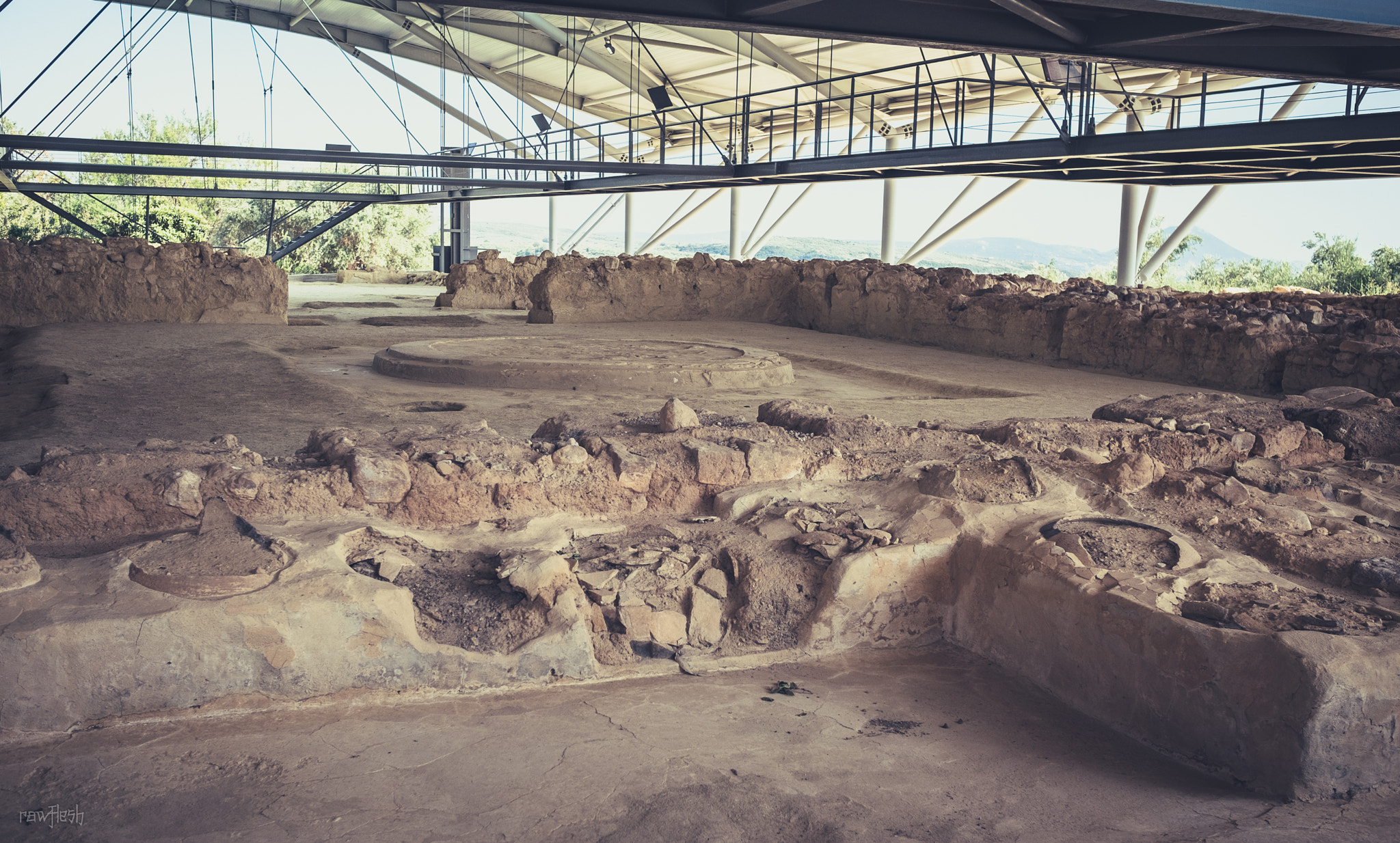 500px provided description: The Palace Of Nestor [#Travel ,#Greece ,#Peloponesse]